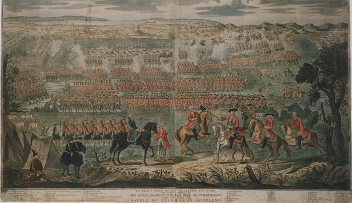 Woodcut painting from Oct 1746 depicting the Battle of Culloden which took place in April 1746.